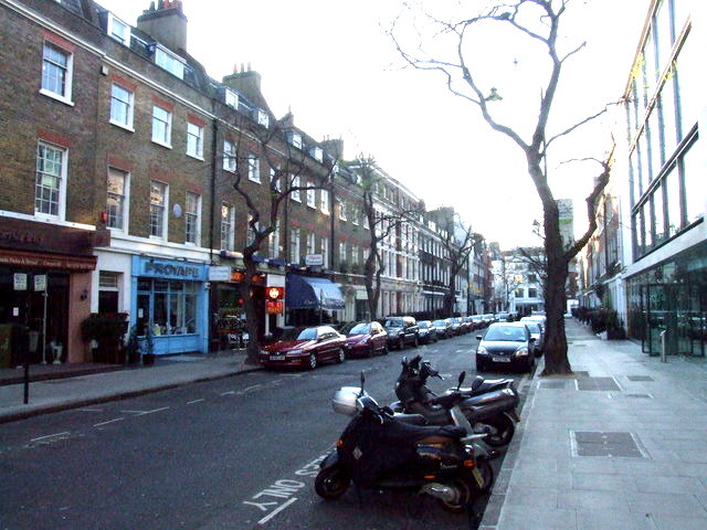 Percy Street, Fitzrovia